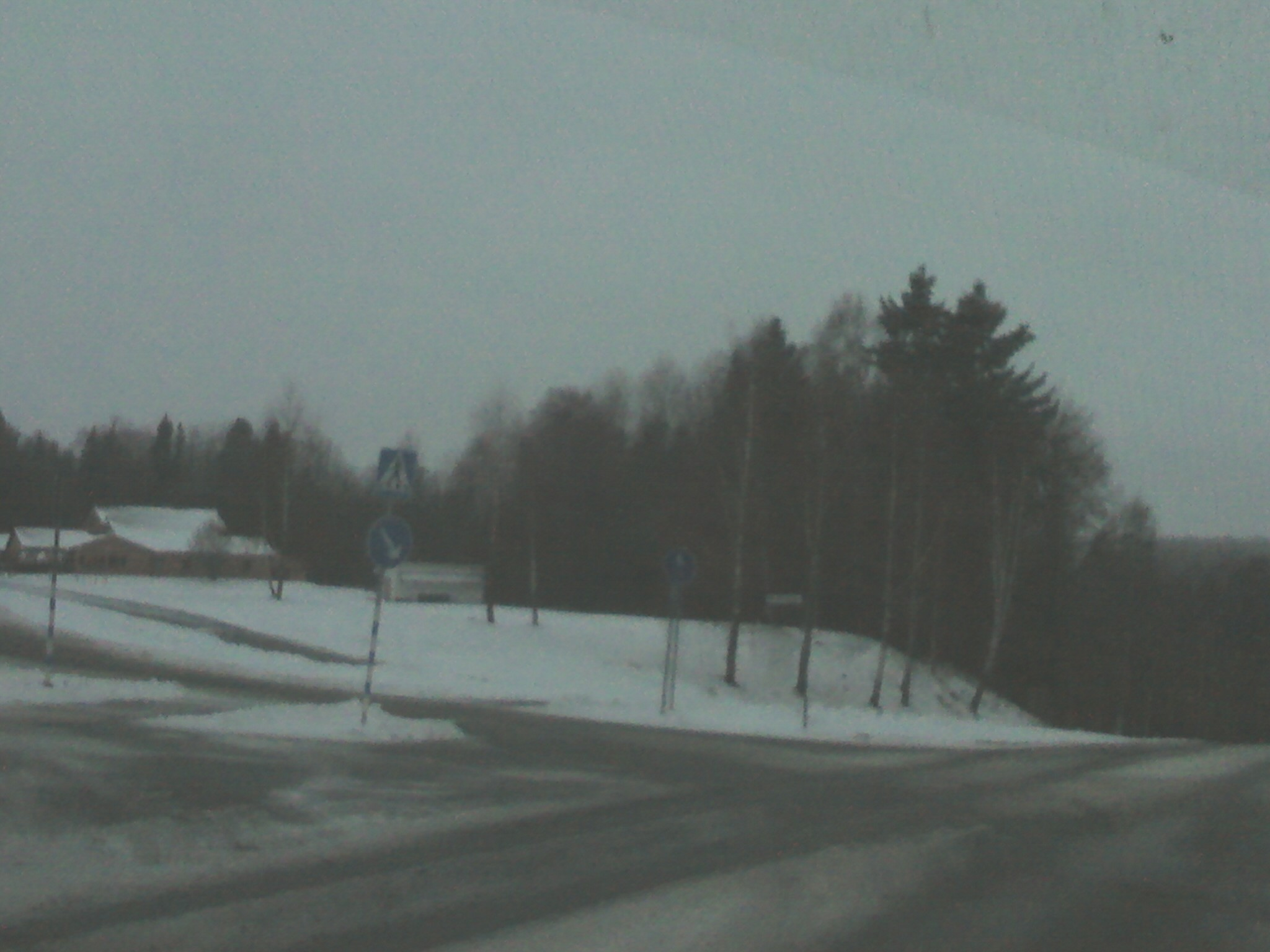 Habo Mission Covenant Church, Sweden. 10 December 2013